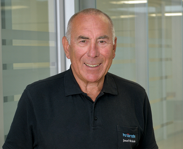 Josef Kränzle, Illertissen 2018